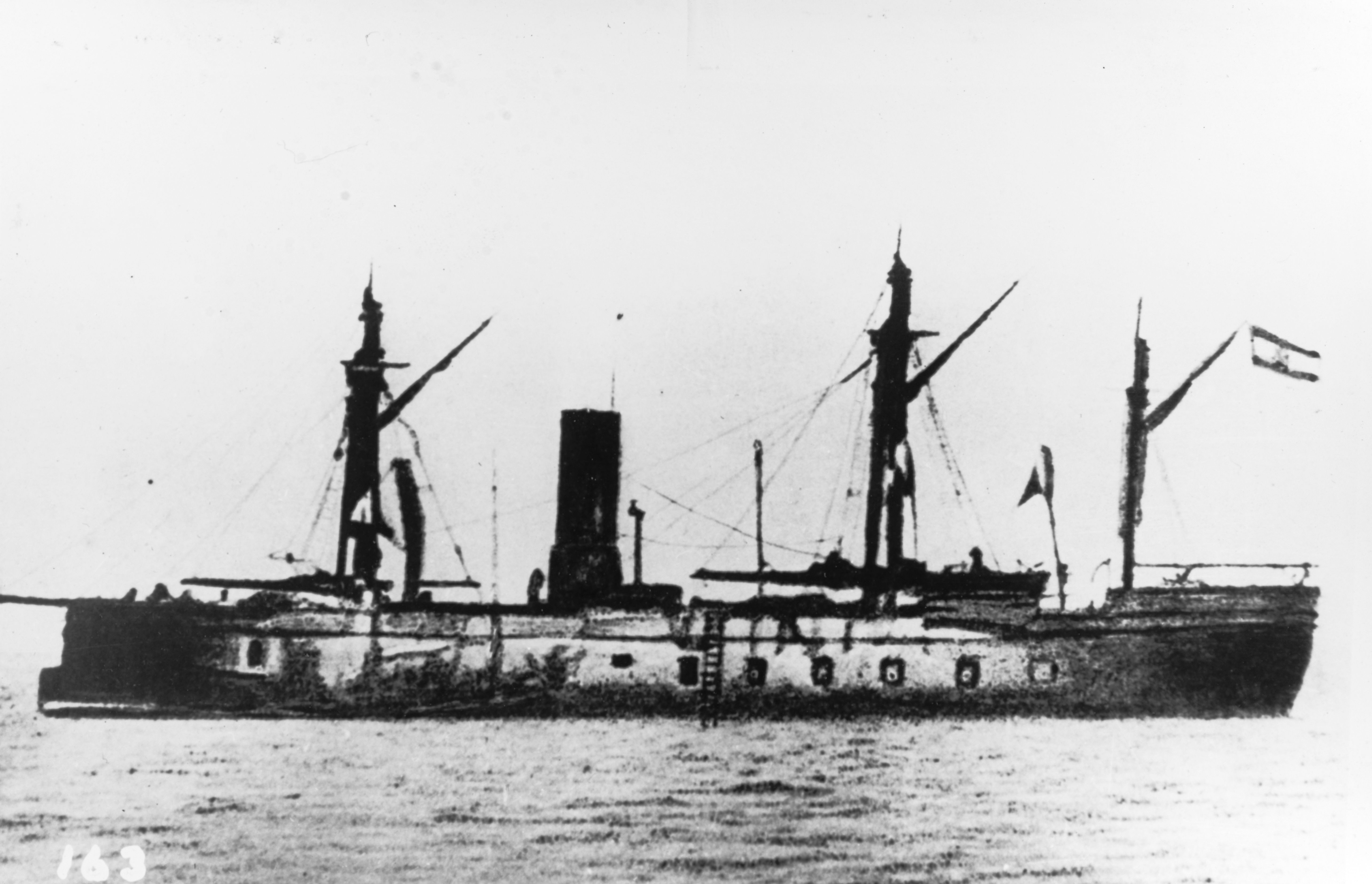 Austrian ironclad Salamander. Shown before her modernization of 1867-68.